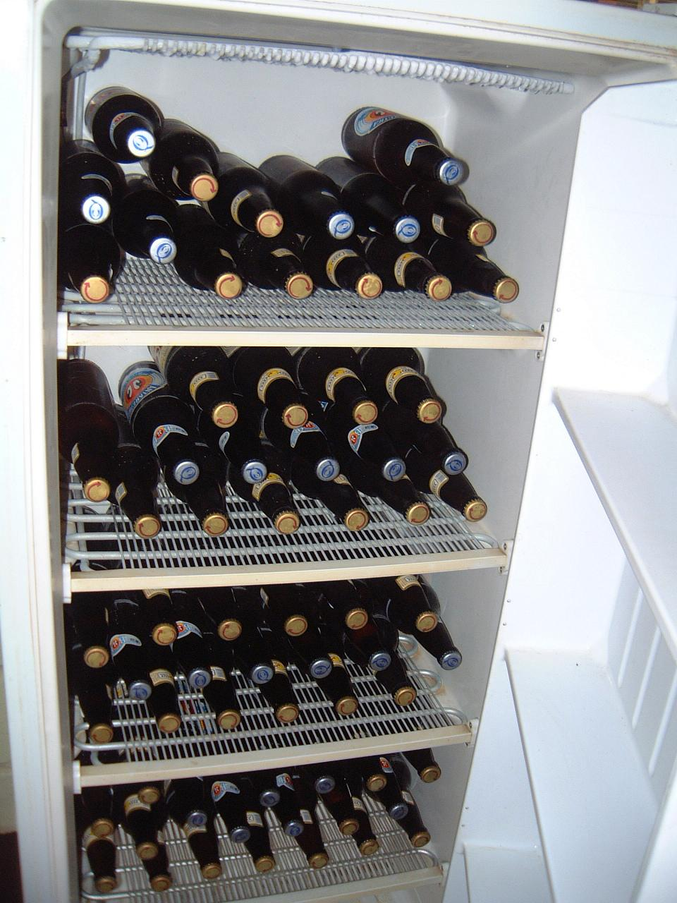 freezer with beer